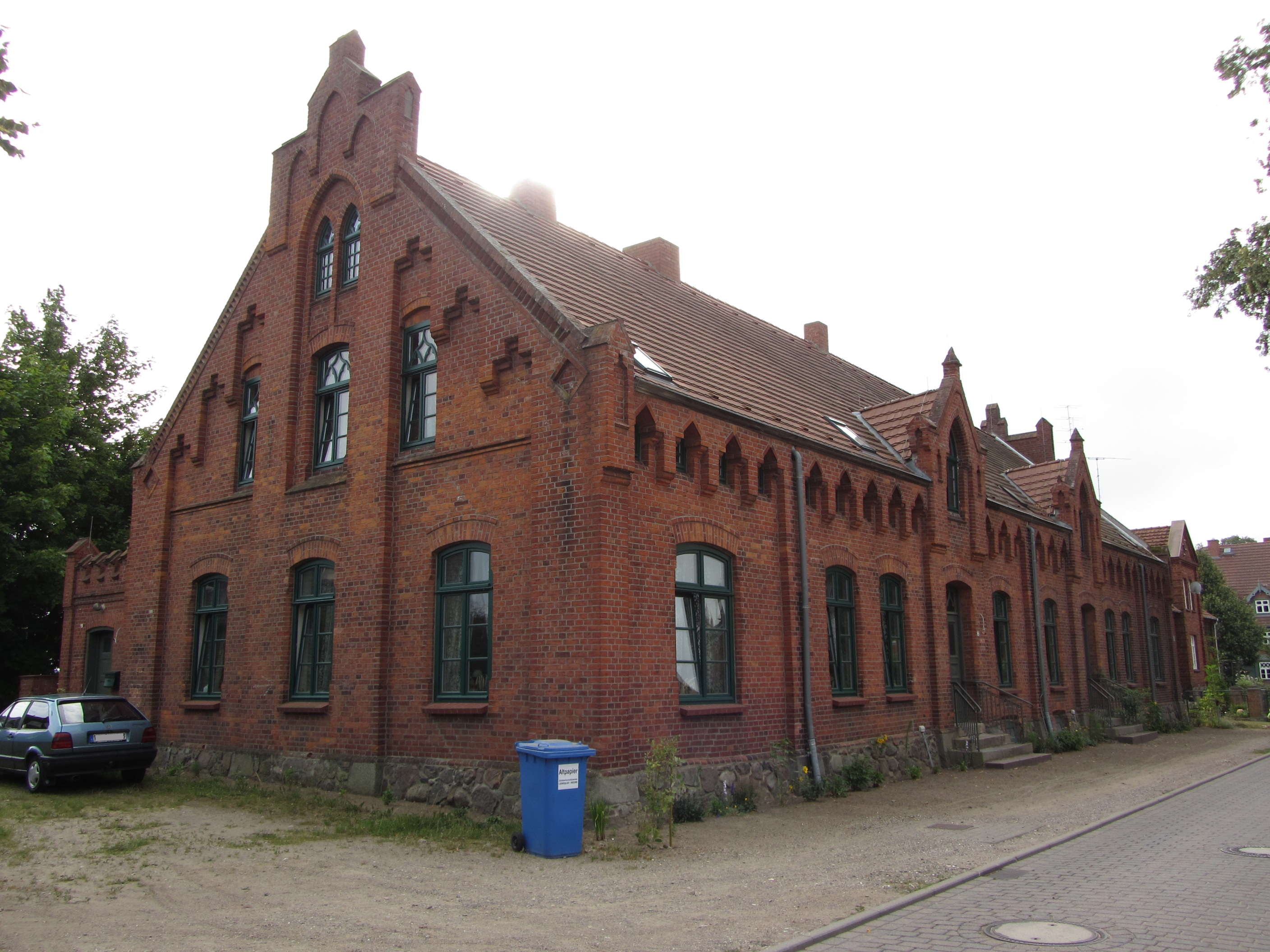 Cultural heritage monument in the Lindenstraße 1 in Dobbertin, district Ludwigslust-Parchim, Mecklenburg-Vorpommern, Germany